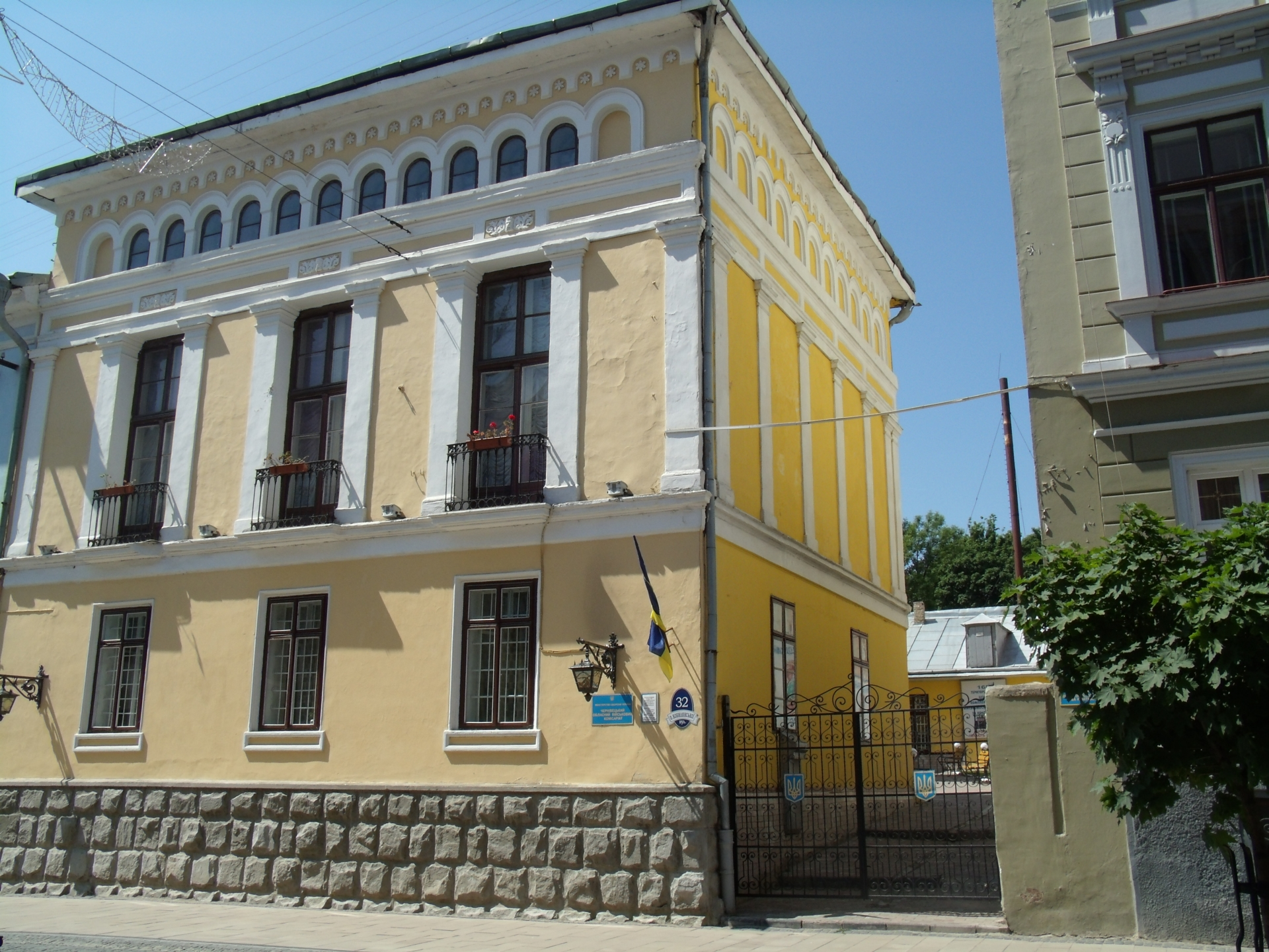 Chernivtsi, Kobylianska house 32